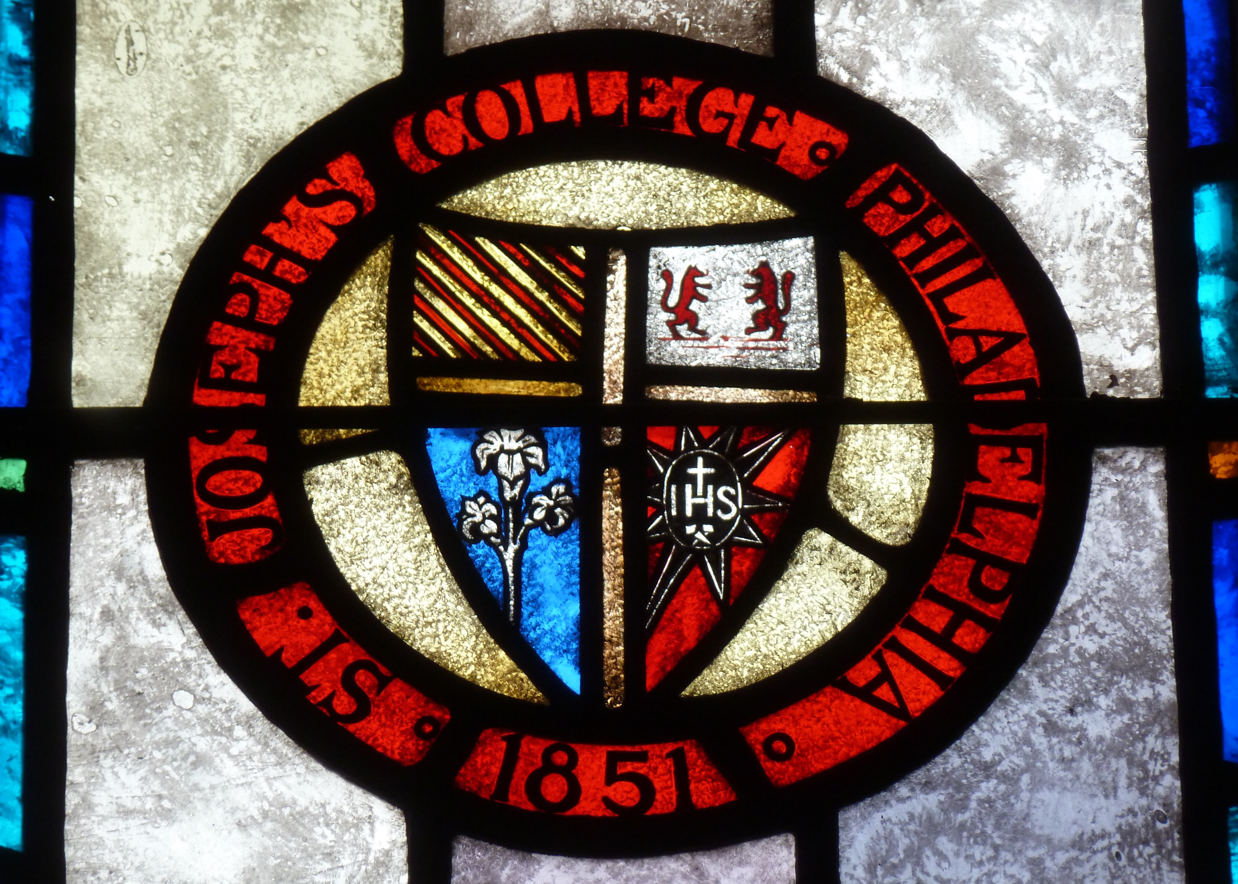 This is the official seal of Saint Joseph's College, now Saint Joseph's University. This stained glass crest is located at the Boston College Burn's Library.